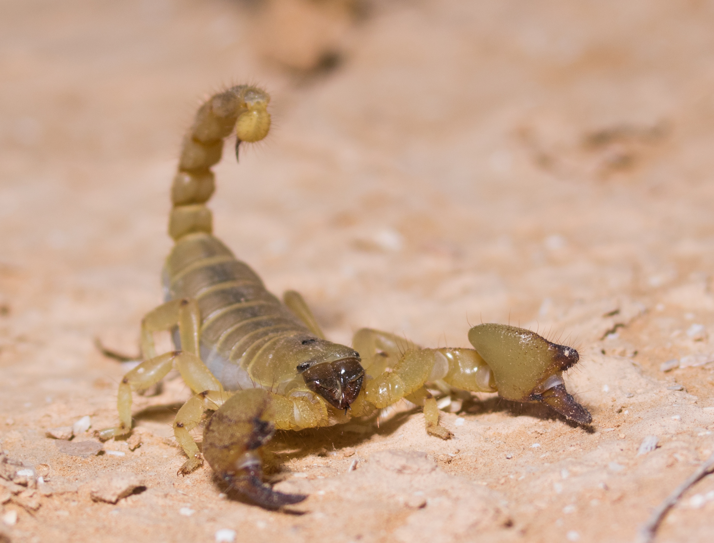 Scorpio maurus palmatus. Sde boker, Israel.